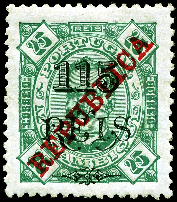 Mozambique 25-reis overprinted stamp of 1915